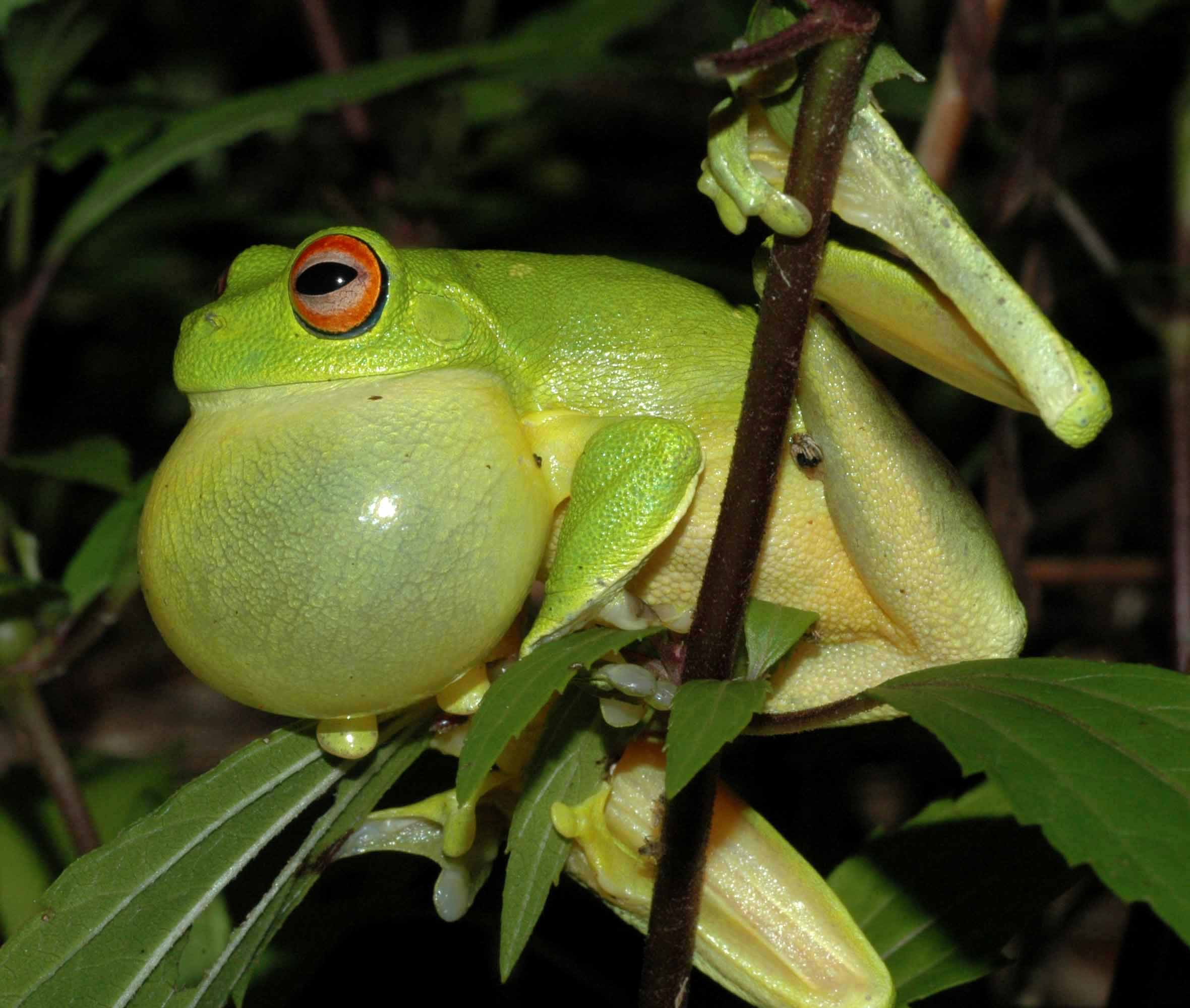 A Red eyed Tree Frog (Litoria chloris) calling